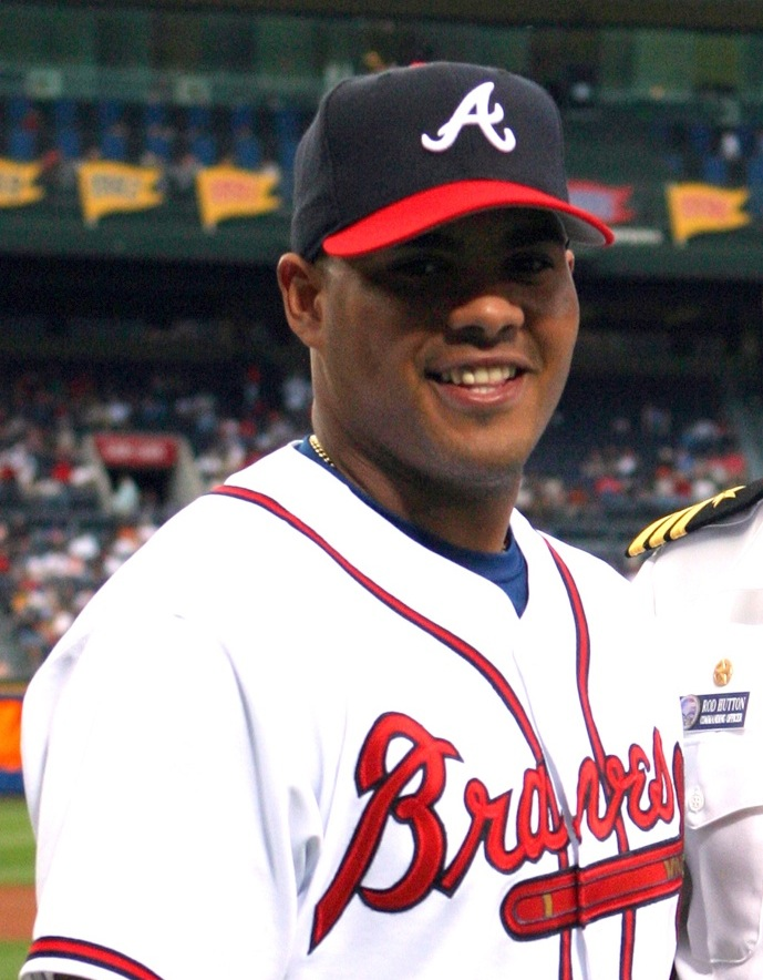 Atlanta Braves catcher Brayan Peña at Turner Field prior to a game with the New York Mets. (Cropped from U.S. Navy photograph)